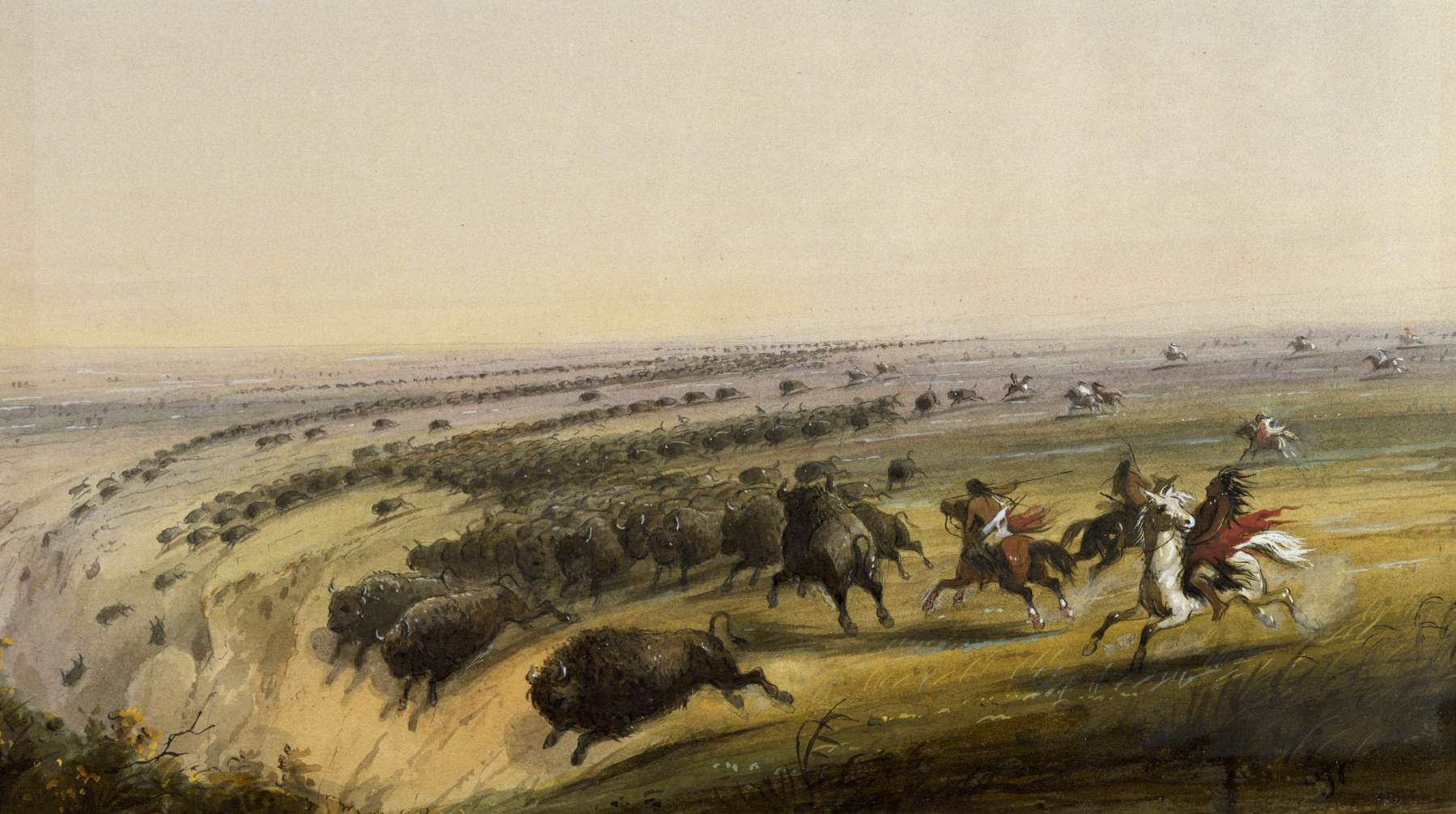 It is true that various Plains Indians would occasionally chase buffalo over a small cliff, but Miller probably never saw this scene and therefore exaggerated it a bit. The Indians, when they found a suitable bluff, would conceal themselves behind the rocks with hides. When the herd would start to move towards the bluff, the Indians would jump up from behind their rocks, shouting and waving the hides, keeping the buffalo moving toward the cliff. In later versions of this picture, Miller exaggerated the cliff even more. Had the Indians driven buffalo over such precipices, the meat would have been too badly smashed to eat and the bones would have been broken.